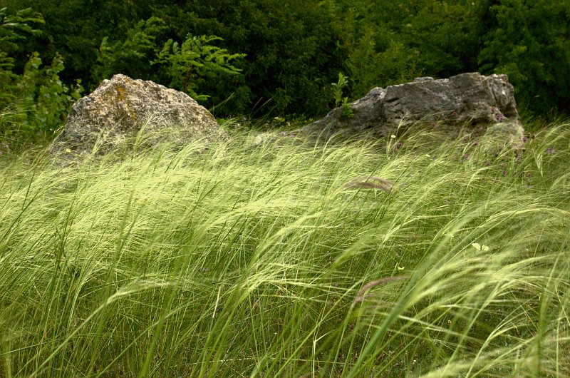 Sandberg